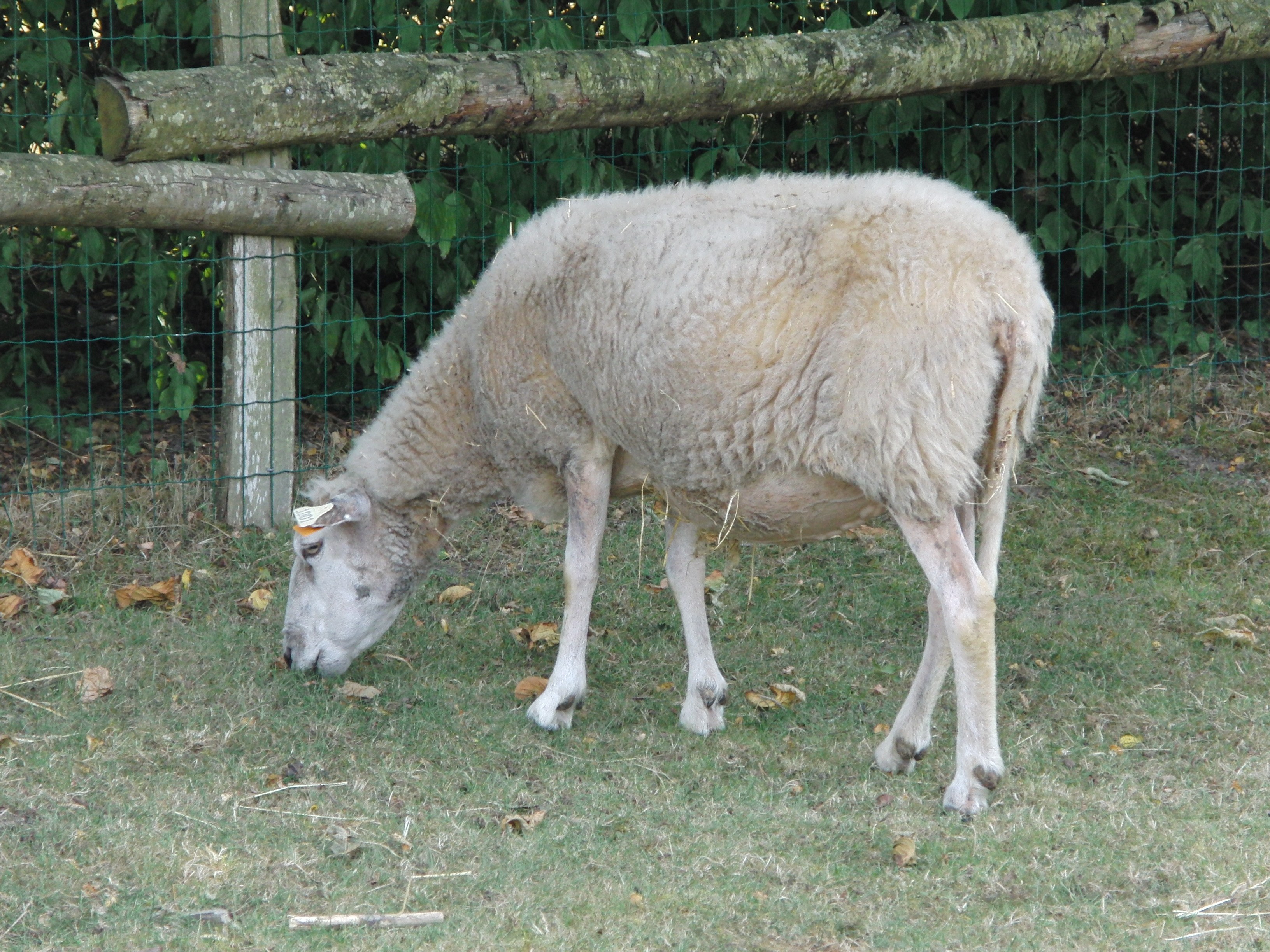 Belle Ile sheep